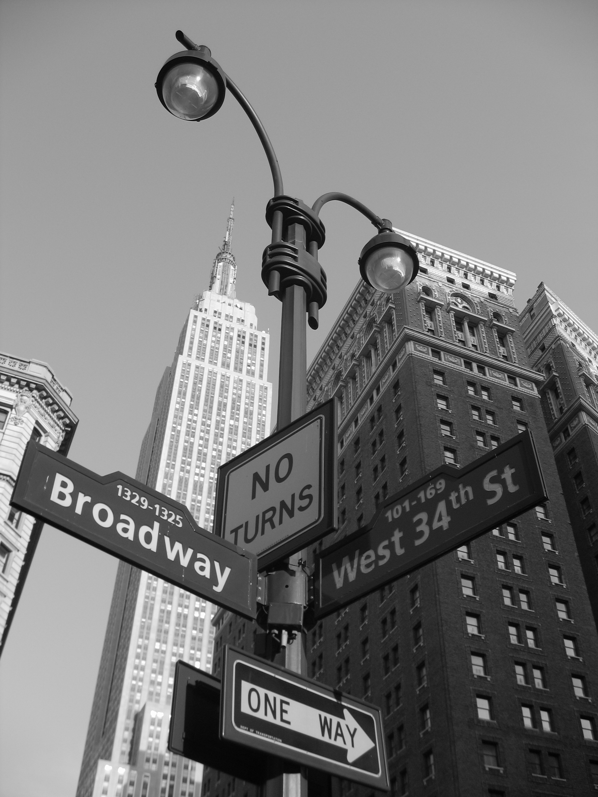 View of the Empire State from Macy's